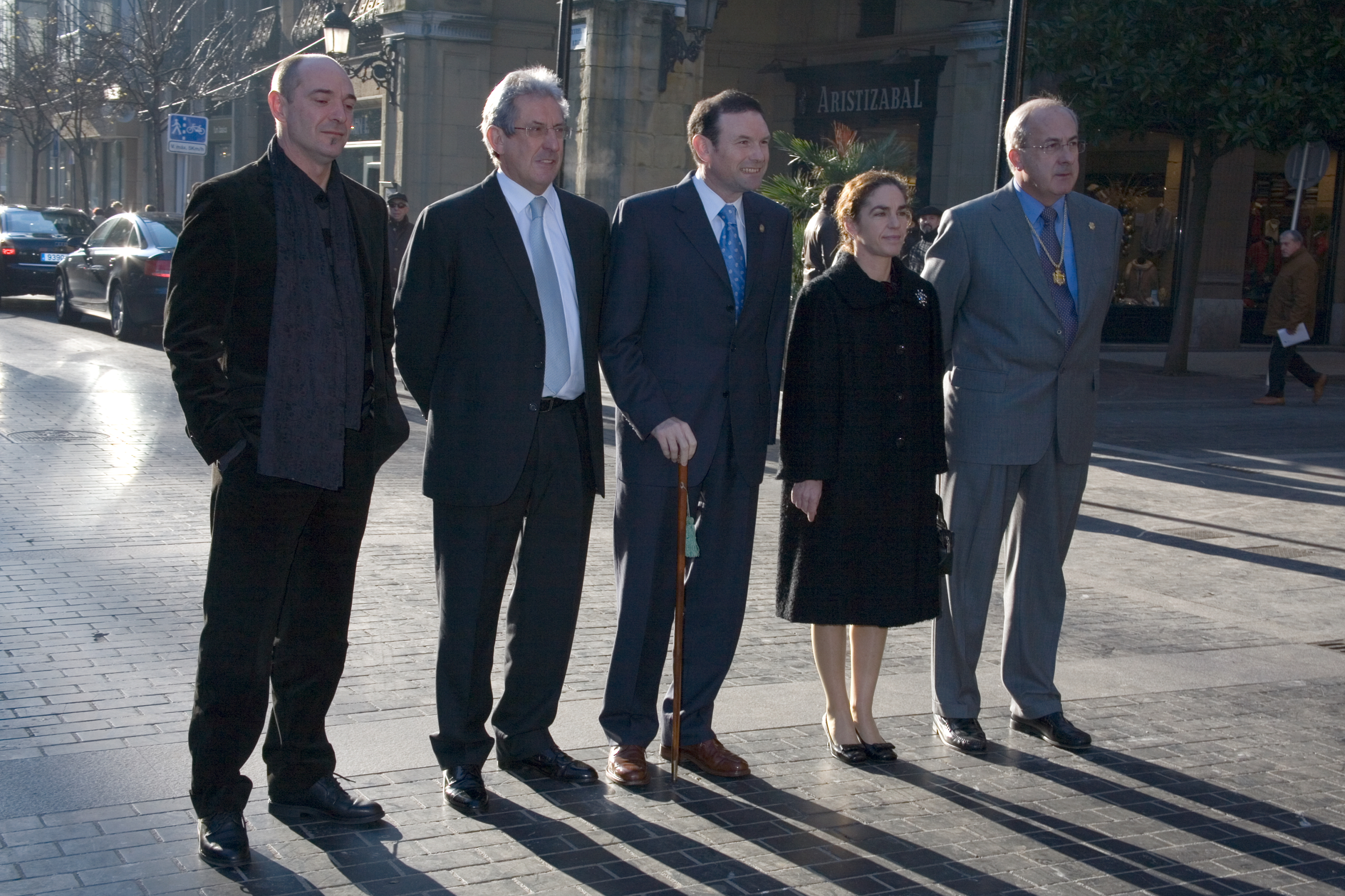 Left to right, Andoni Egaña, bertsolari and TV conductor; Pedro Miguel Echenique, physicist; Juan José Ibarretxe, president of the Basque Country; Iciar Astiasarán, dean of the Pharmacy School of the University of Navarre; and Joxe Joan González de Txabarri Miranda, former Spanish Congressman